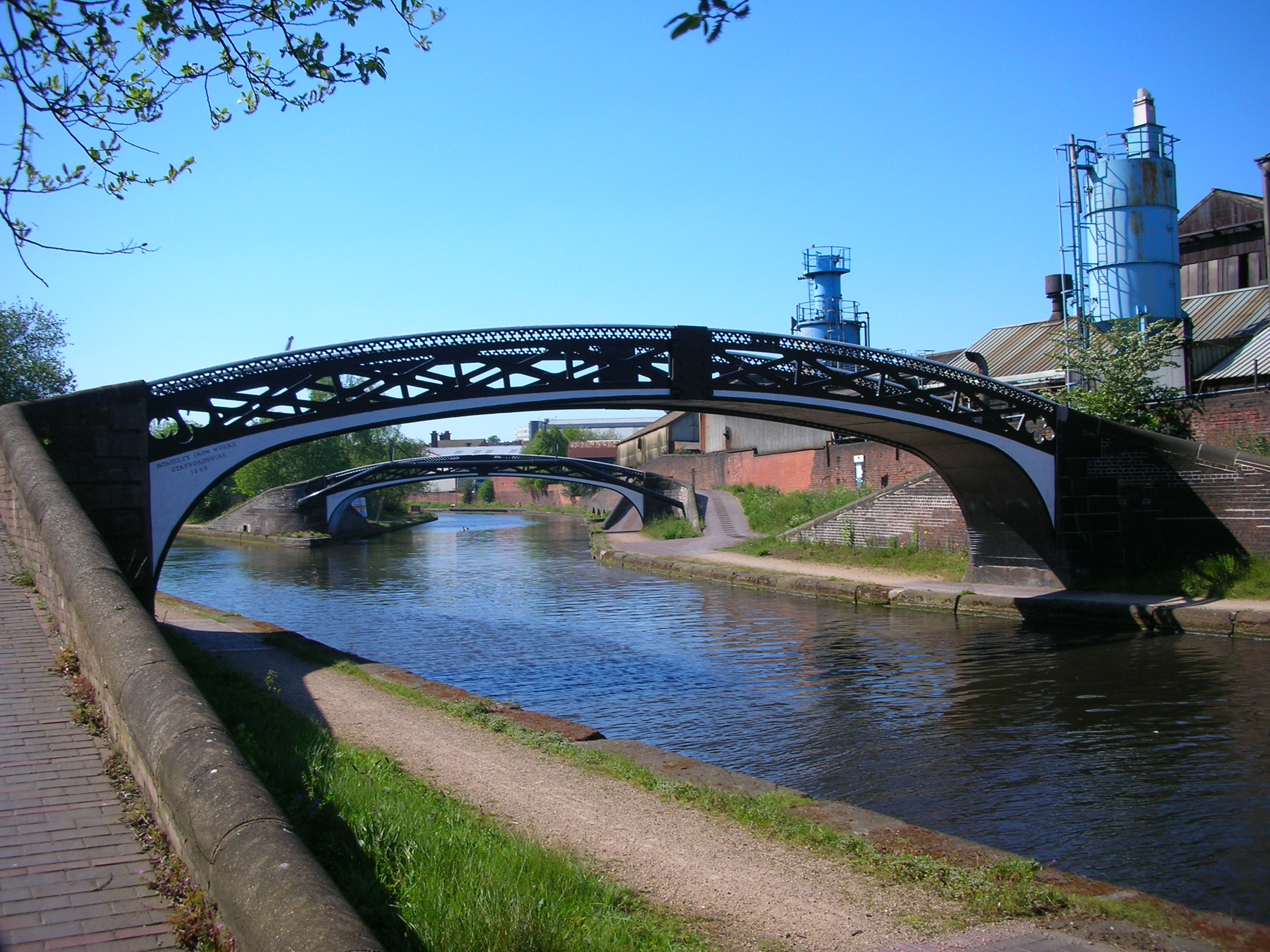 Two roving bridges at Smethwick Junction, the division of the BCN Main Line into the New (left) and Old (through second bridge) Main Line Canals near Smethwick, West Midlands, England. The bridges were locally made at the Horseley Iron Works, 1828, as were many on the BCN. Photographed by me 1 May 2007. Oosoom